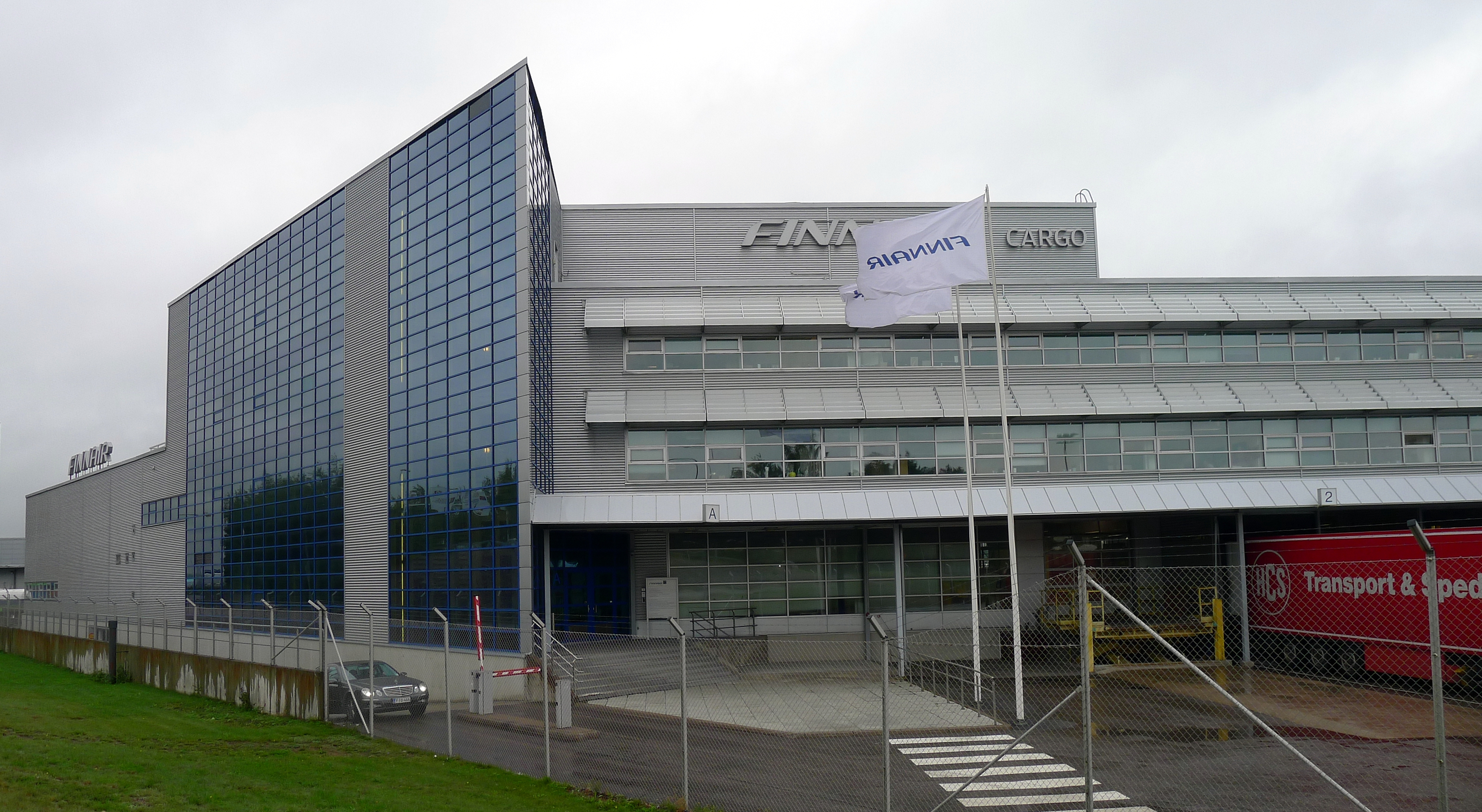 Finnair Cargo offices at Helsinki-Vantaa airport